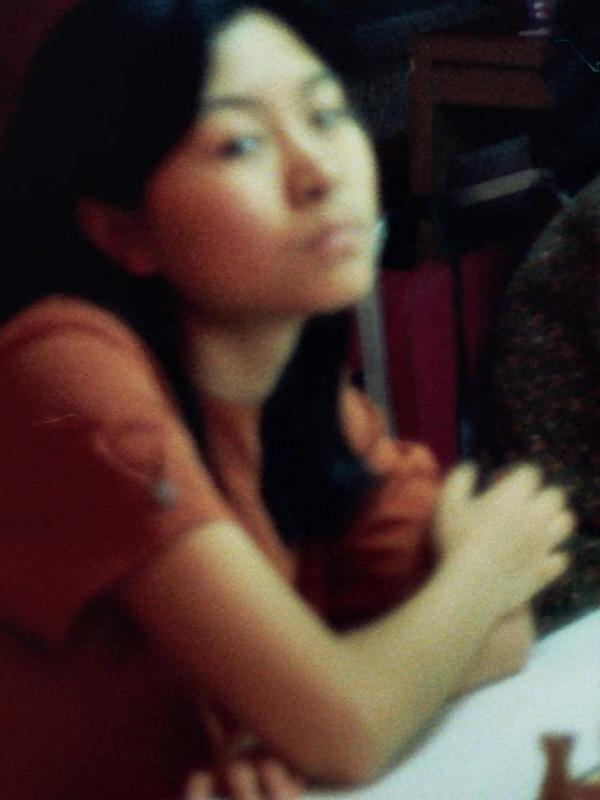 Qin Kanying, Chess Olympiad 1992, Photographer Gerhard Hund.